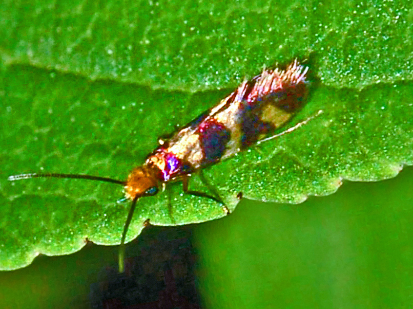 Micropterigidae - Micropterix cf. rothenbachii. Val Noci, Genova, Italy